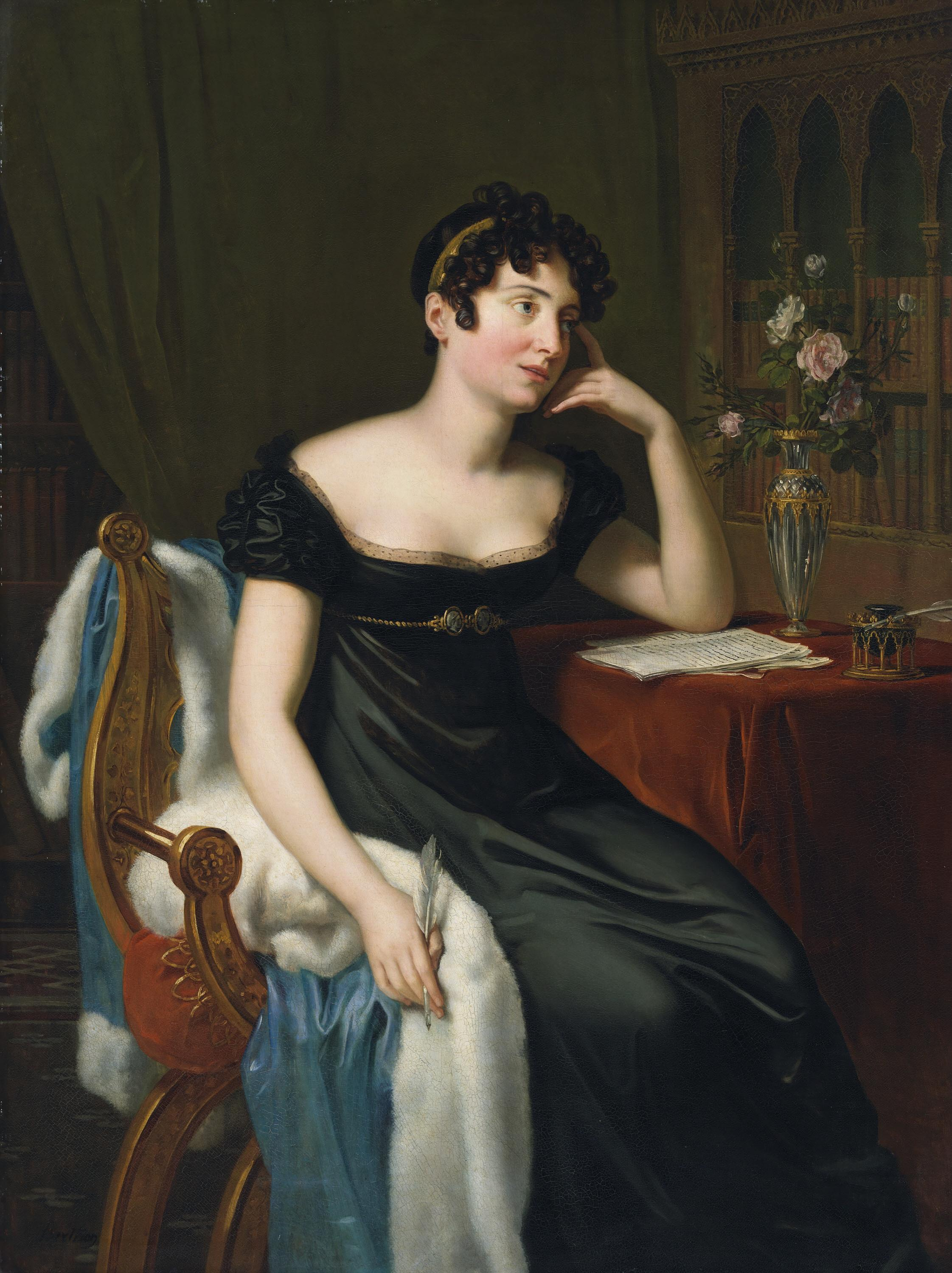 Portrait of the Irish novelist Lady Morgan (née Sydney Owenson; 25 December 1781? – 14 April 1859)